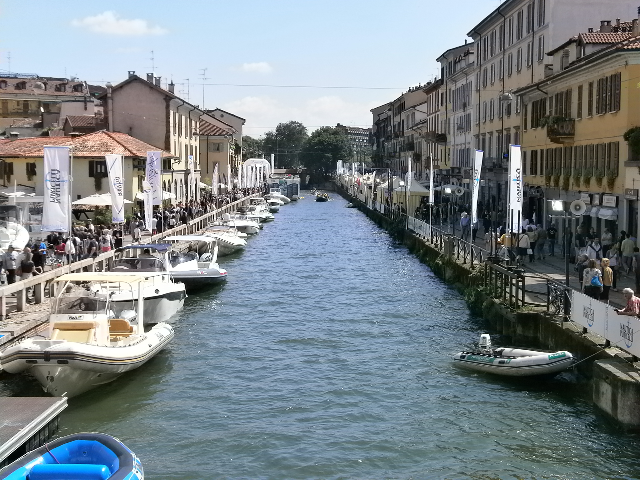 The Naviglio Grande in Milan - during fiera NavigaMi boat Show - salone nautico NavigaMi